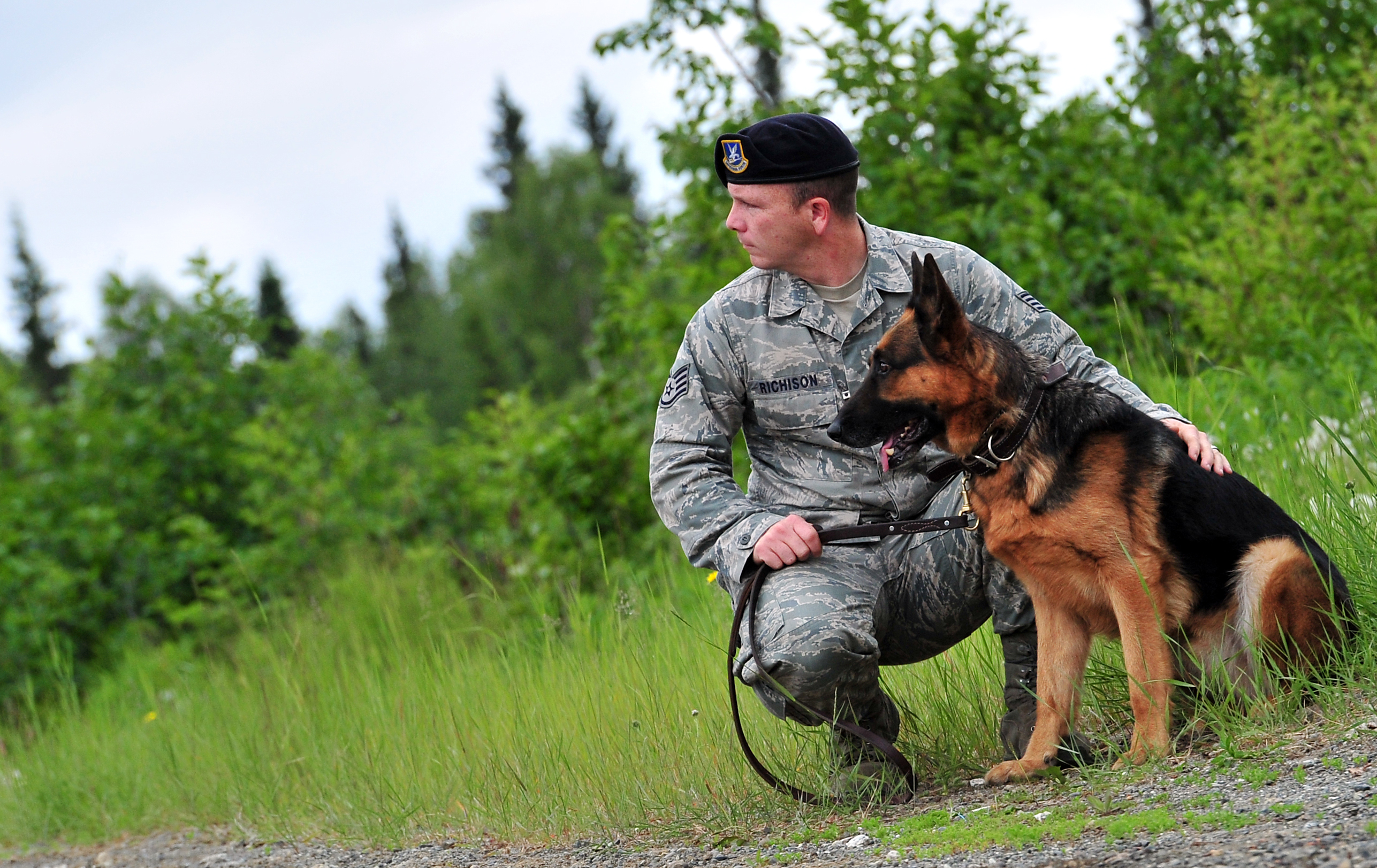 Air Force Staff Sgt. Anthony Richison and his German shepherd Dax of 673d Security Forces Squadron wait for K-9 explosives training to begin at Hillberg Ski Area on Joint Base Elmendorf-Richardson, June 20. Police and military working dogs can be trained to smell minuscule traces of explosives and drugs, even if the substances are in a sealed container.